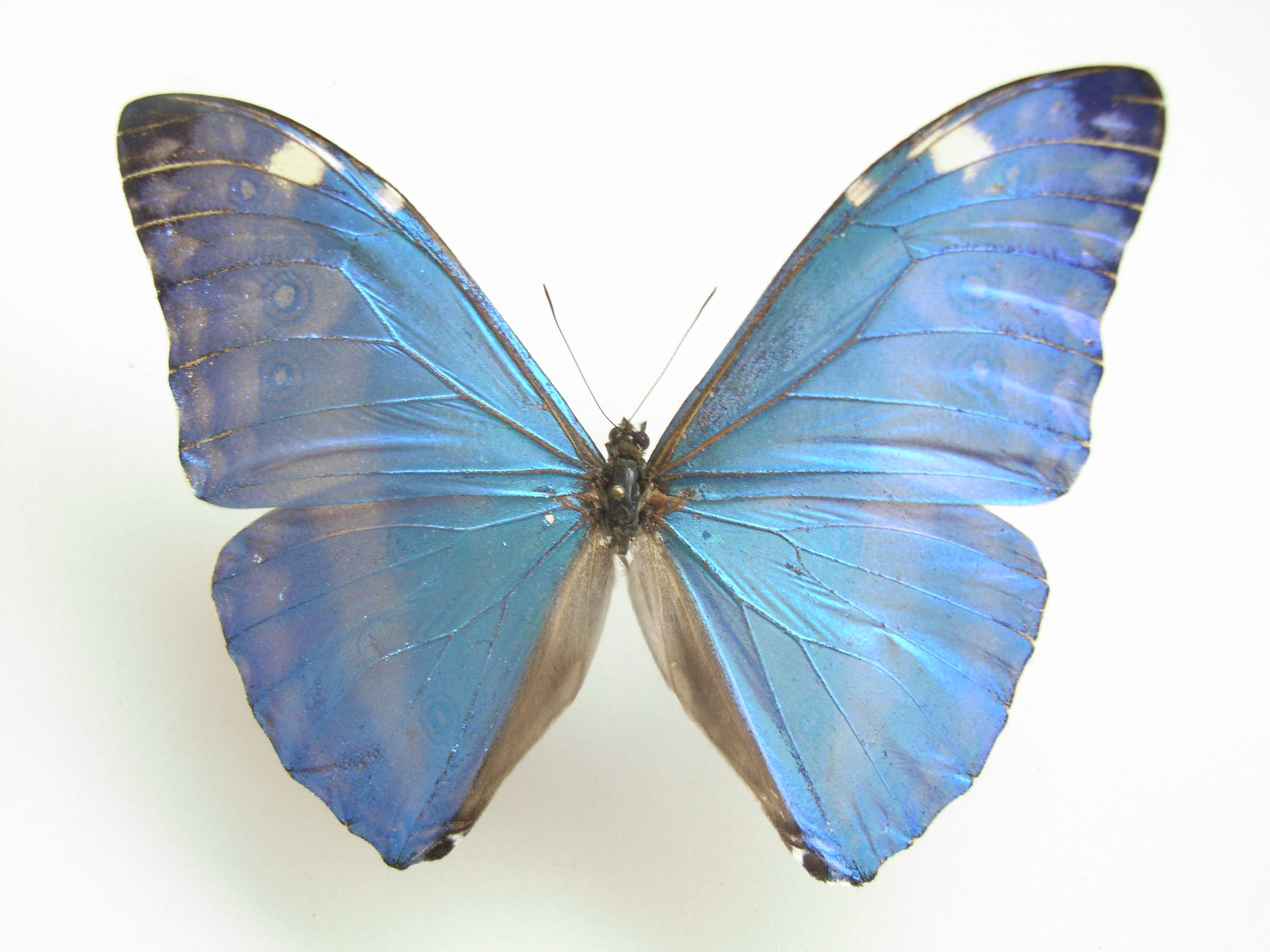 Morpho adonis not zephrytis Butler, 1873 as in file name